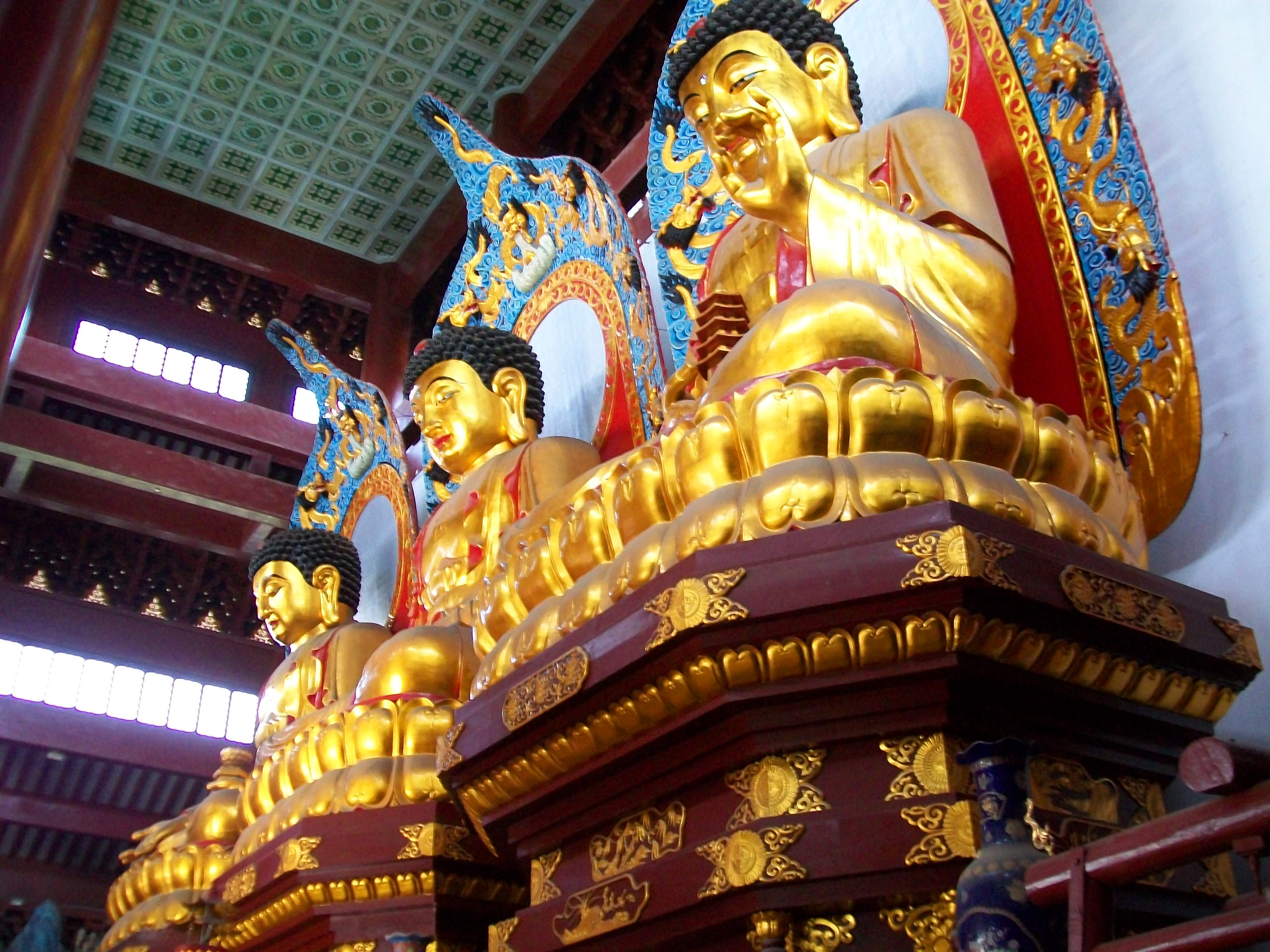 Three large statues of the Buddha at Dharma Flower Temple in Huzhou, Zhejiang province.